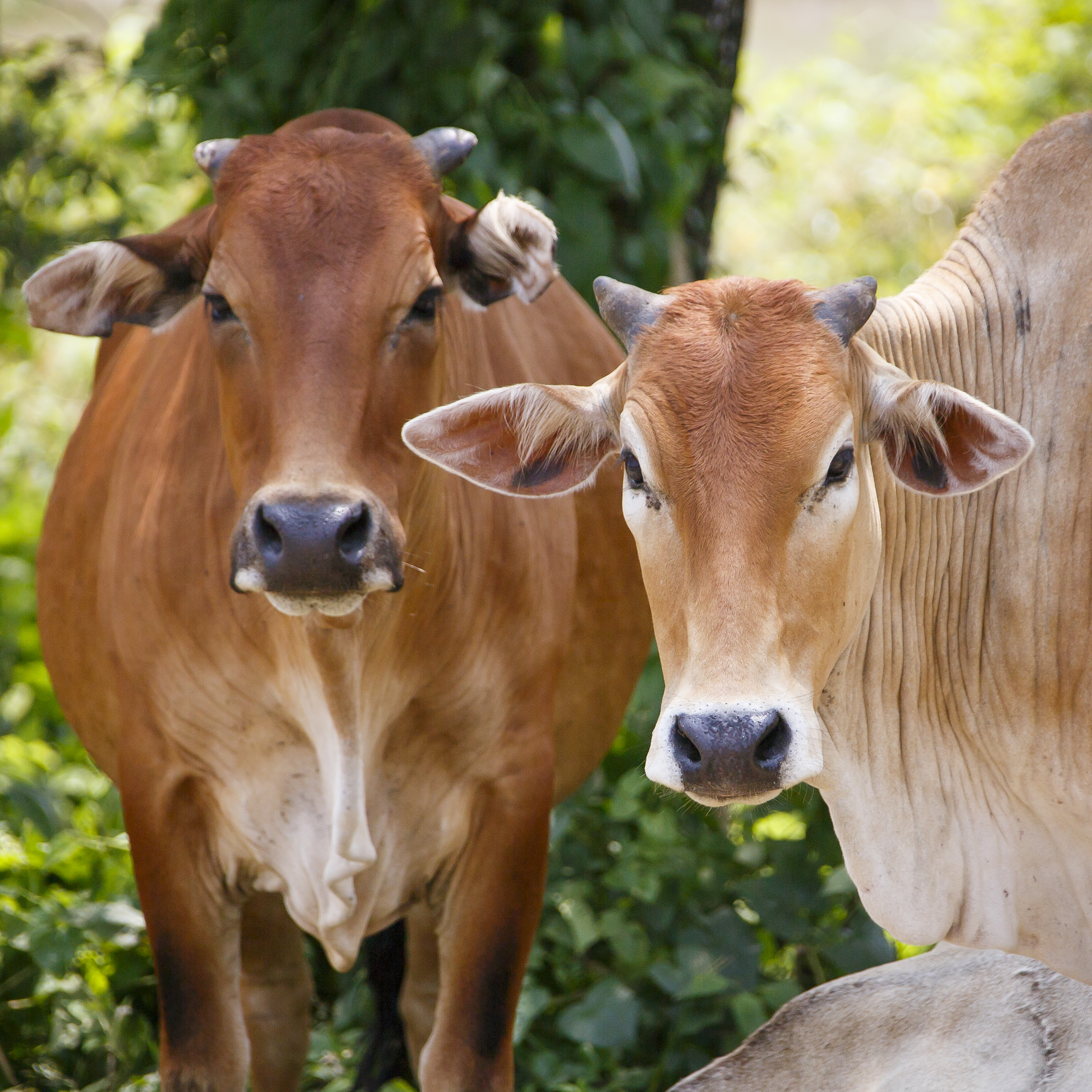 Kg Taun Gusi 2, Kota Belud, Sabah: Some cows at the Kota Belud - Kota Marudu Road next to the Tempassuk rice paddies.